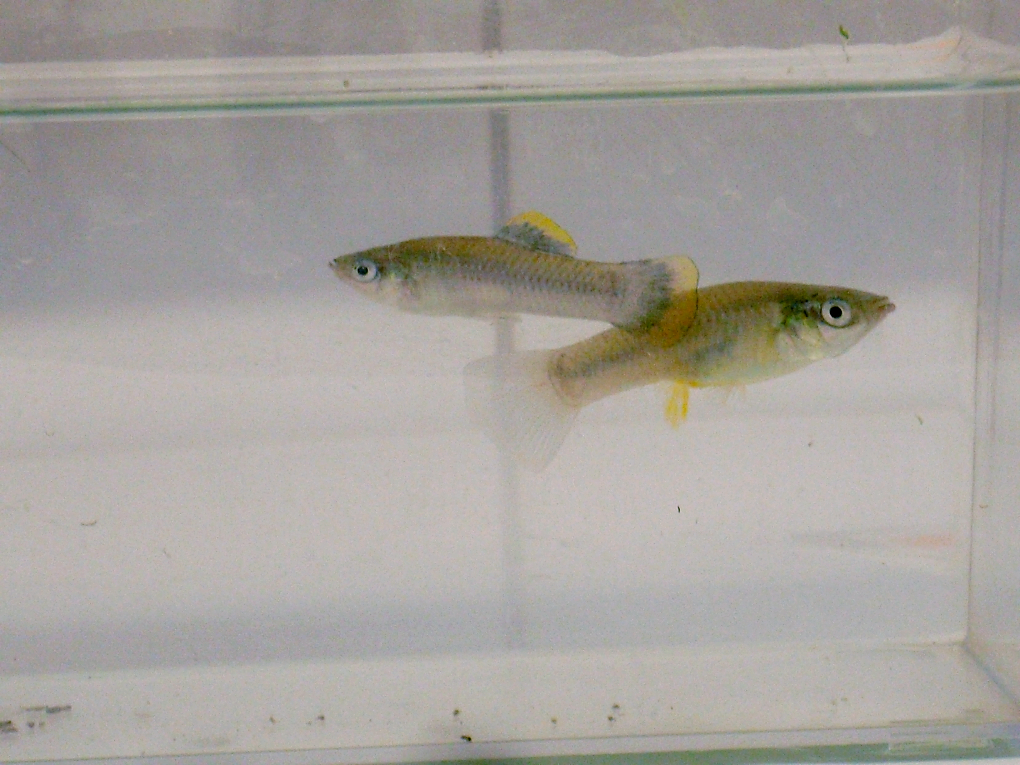 Atlantic molly (male [upside] and female [downside])